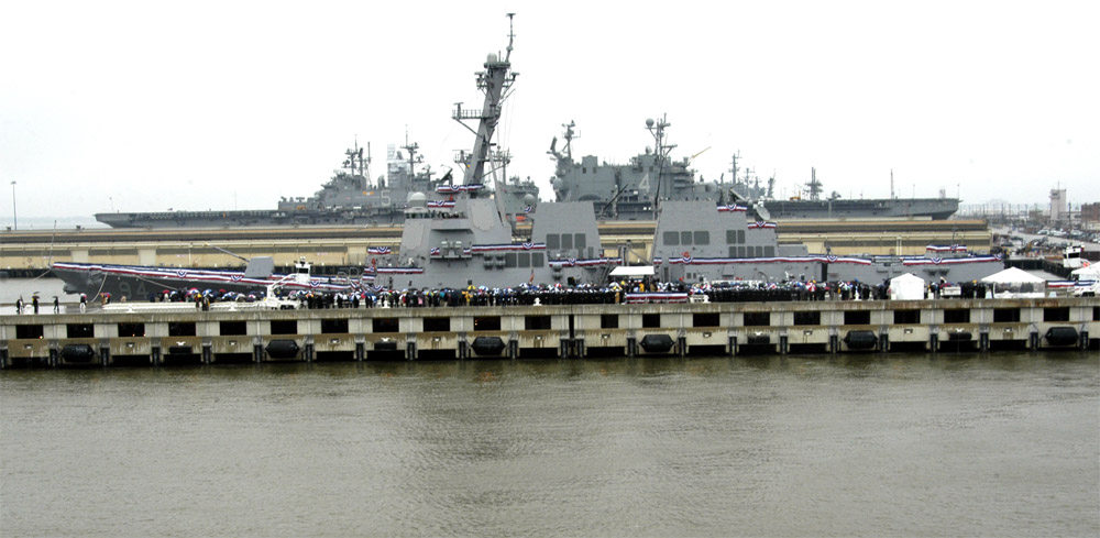 050305-N-3527B-001 Norfolk. (5 March 2005) - A port-beam view of the U.S. Navy's newest guided missile destroyer USS Nitze during her commissioning ceremony held on board Naval Station Norfolk, Virginia. Nitze is the 44th ship in the Arleigh Burke class of guided missile destroyers and honors former Secretary of the Navy Paul H. Nitze. This highly capable multi-mission ship can conduct a variety of operations, from peacetime presence and crisis management to sea control and power projection, in support of the National Military Strategy. Nitze is capable of fighting air, surface, and subsurface battles simultaneously.